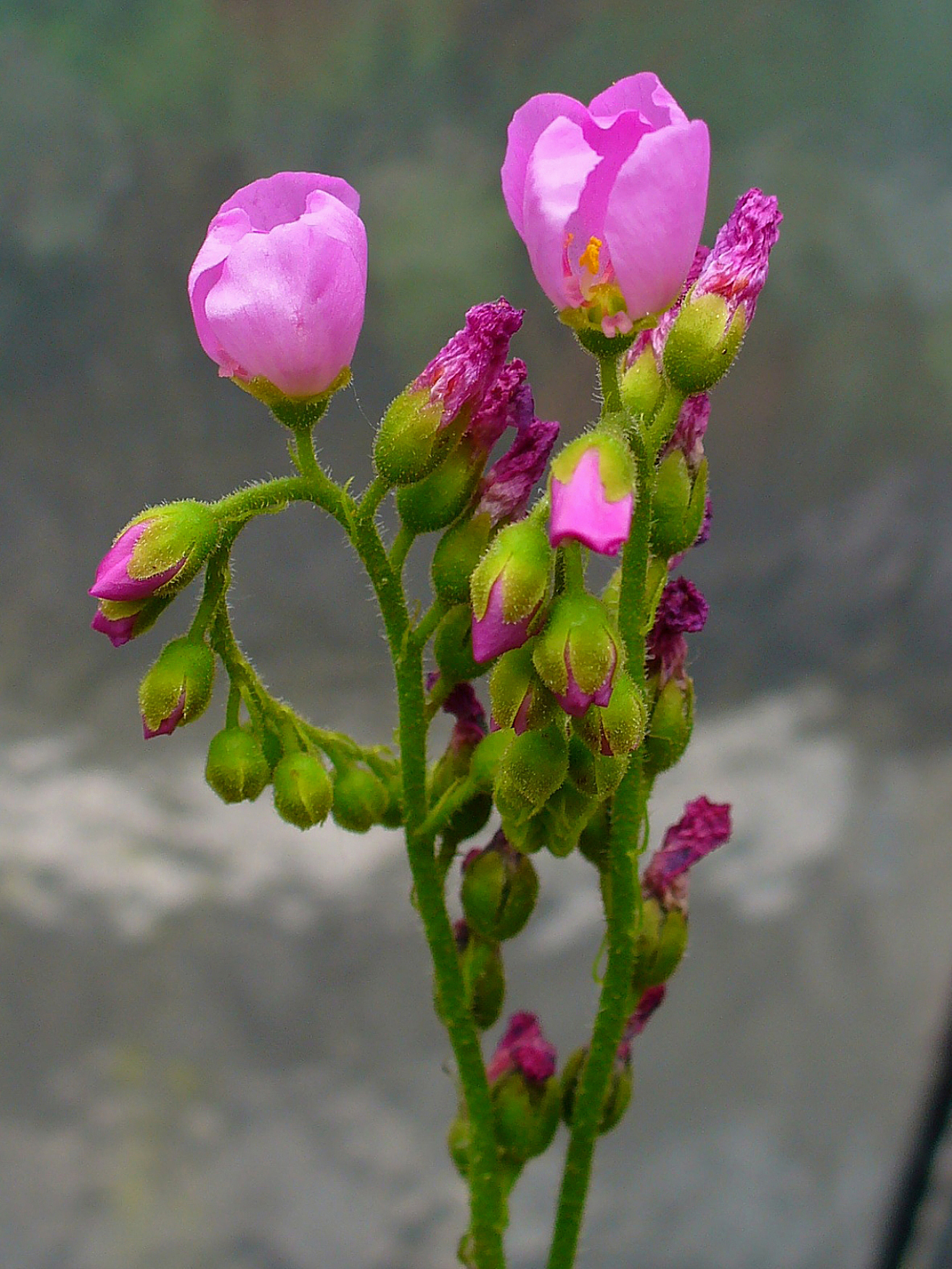 Drosera capillaris, Droseraceae, Pink Sundew, inflorescence; Botanical Garden KIT, Karlsruhe, Germany.